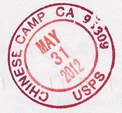 scanned correspondence